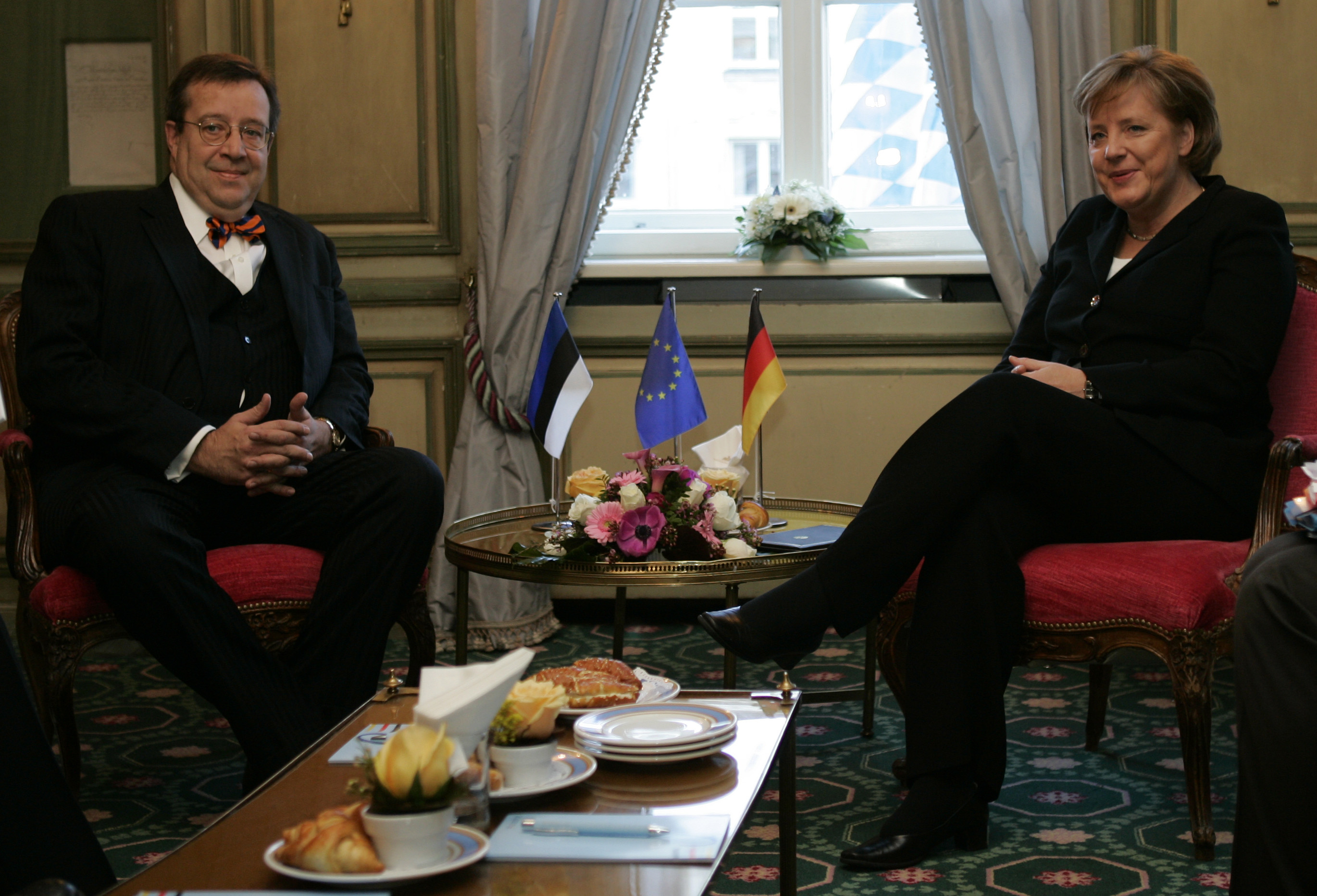 43rd Munich Security Conference 2007: The Federal Chancellor of Germany, Dr. Angela Merkel (re) in Conversation with the president of the Republic of Estonia, Toomas Hendrik Ilves.